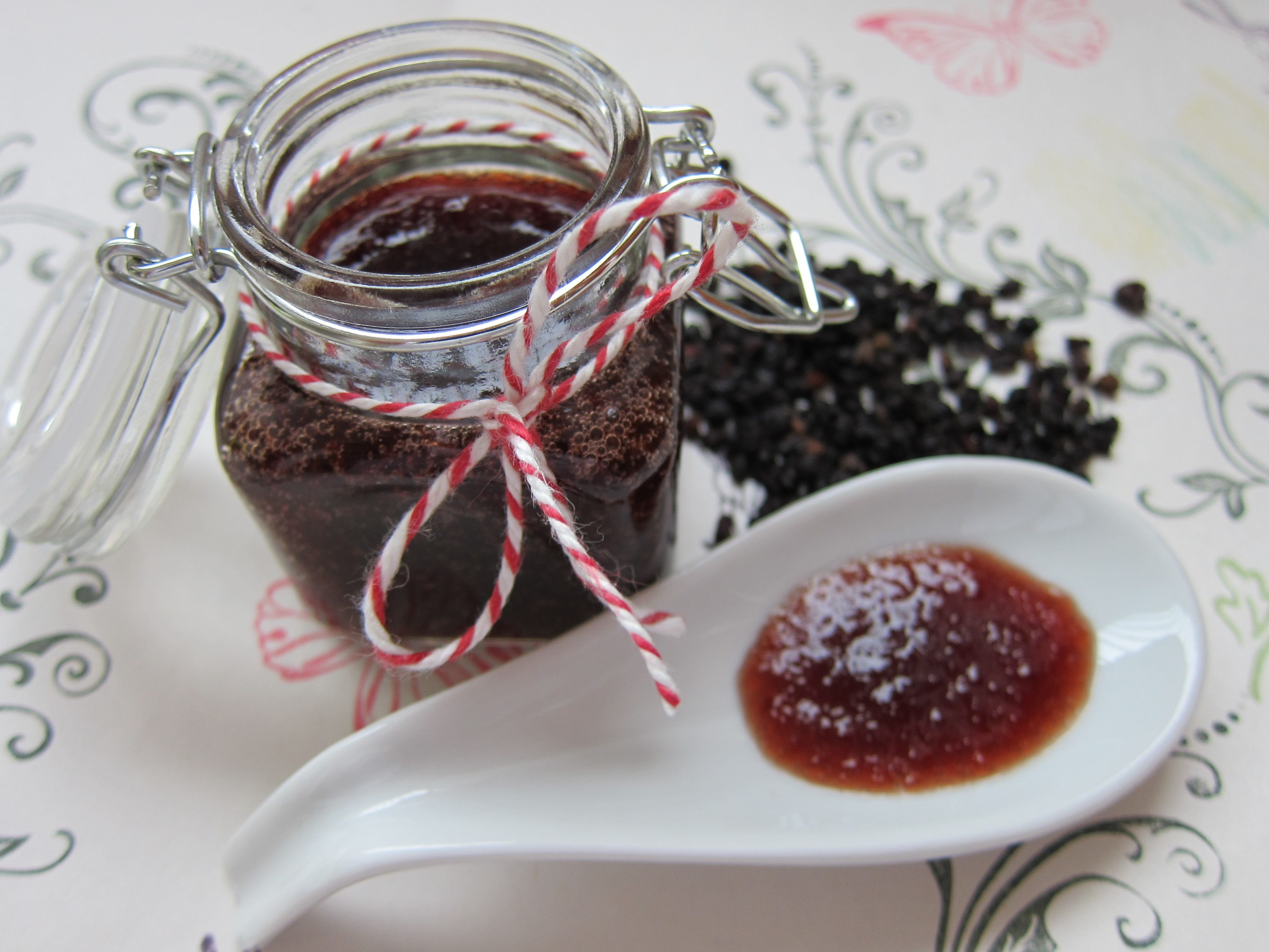 Elderberry marmalade